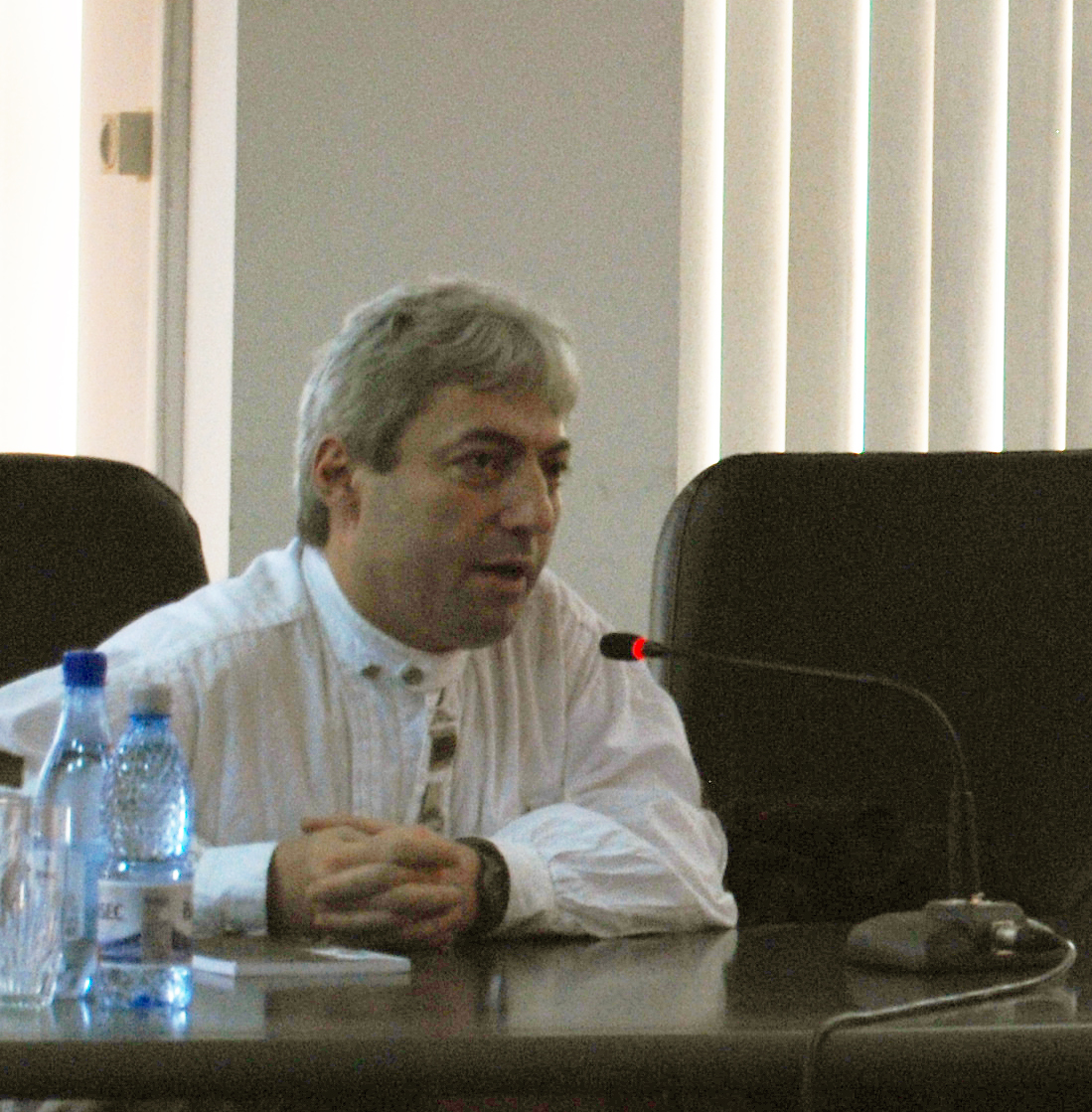 Historian Marius Oprea. Photo taken in March 2011